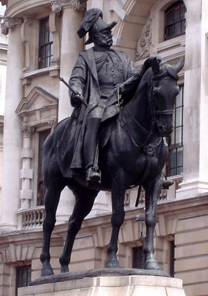 Prince George, Duke of Cambridge - statue on Whitehall, London. (Original text also include: Image by ChrisO)